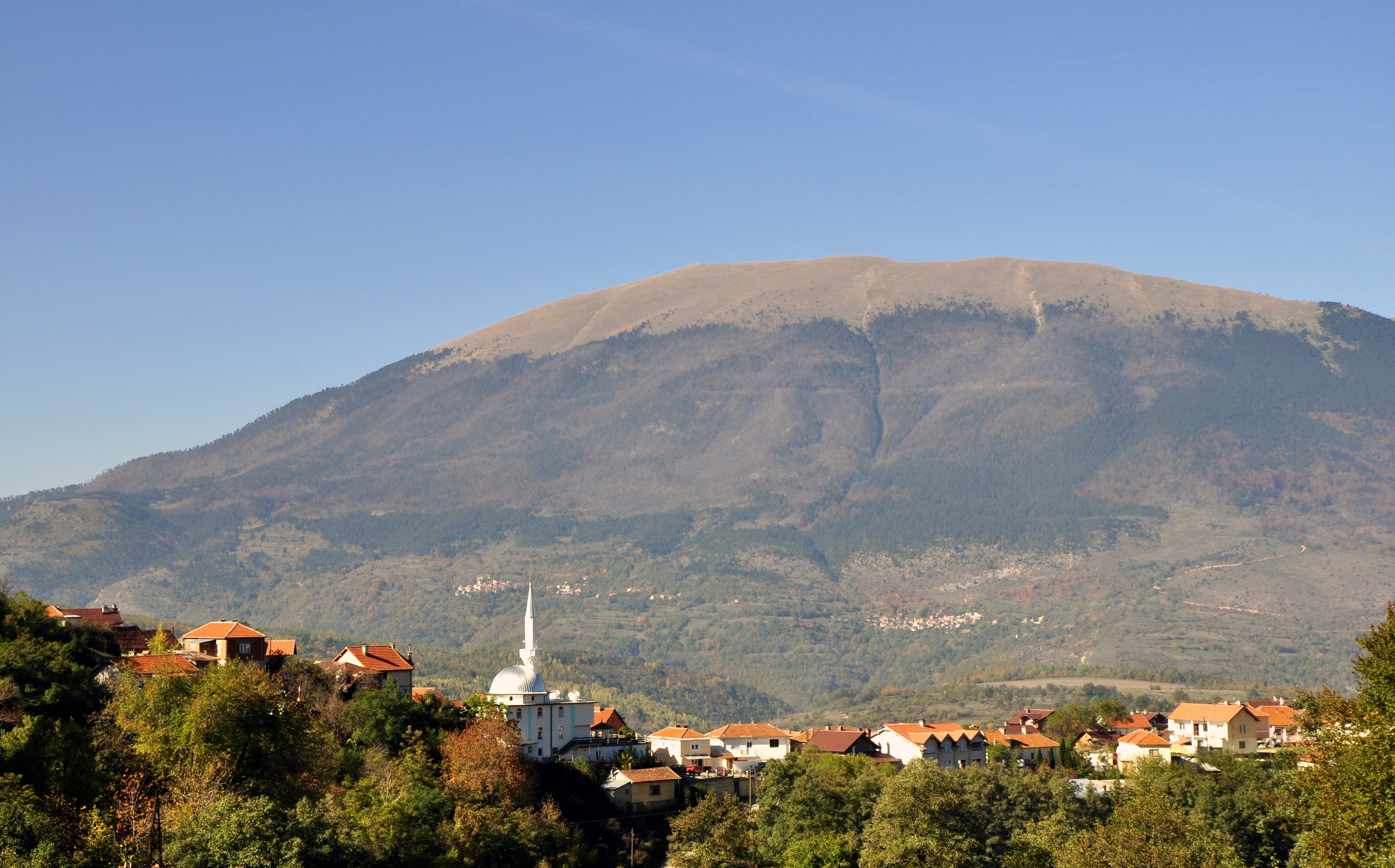 Parku Kombëtar Sharri, Prizren Suharekë Kaçanik Shtërpcë, Dragash